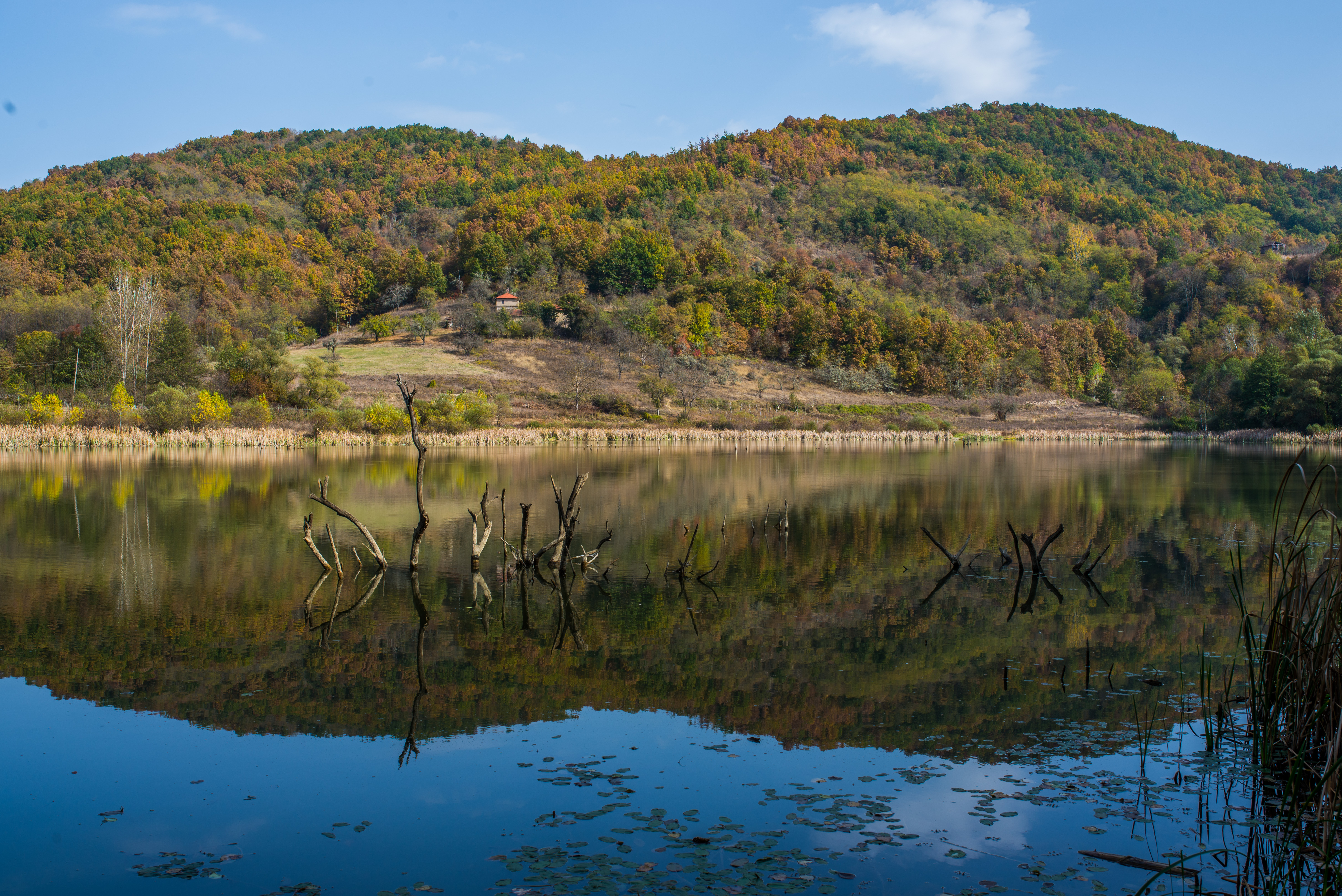 Jovac lake. Srpski (latinica): Jovačko jezero je jedno iz skupine od 6 jezera nastalih prirodnim putem. Ova jezera pripadaju grupi urvinskih jezera nastalih pregrađivanjem vodotokova masom stena i zemljišta u februaru 1977. godine.